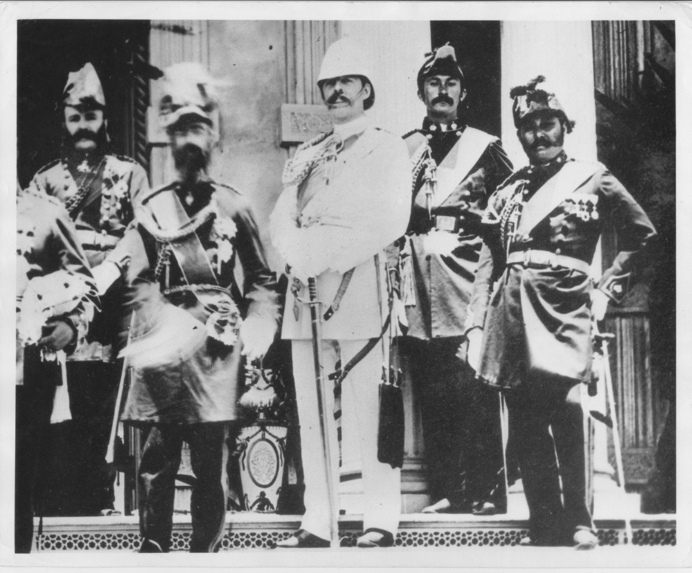 Crop picture of George W. MacFarlane, John Owen Dominis, Andrew Burrell Hayley, John Dominis Holt and Antone Rosa on the ʻIolani Palace steps.